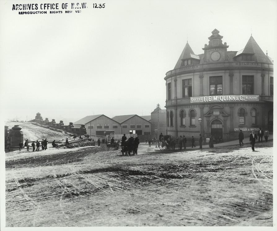 Approach to Pyrmont Bridge from Sydney - as originally built. The Sydney Corn Exchange is at right. Dated: 29/08/1901 Digital ID: 4481_a026_000890 Rights: We'd love to hear from you if you use our photos. Many other photos in our collection are available to view and browse on our website using Photo Investigator.